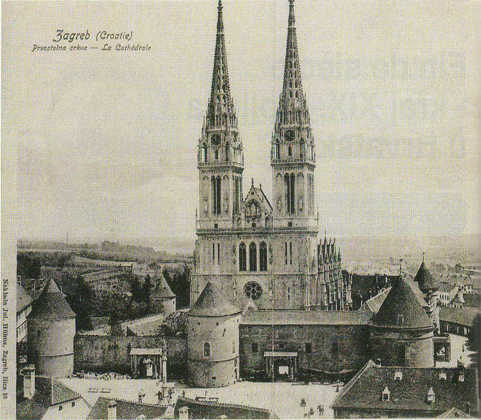 The Zagreb Cathedral renovated according to designs of Hermann Bollé (end of 19 century) (photo was taken between 1902.-1906.)